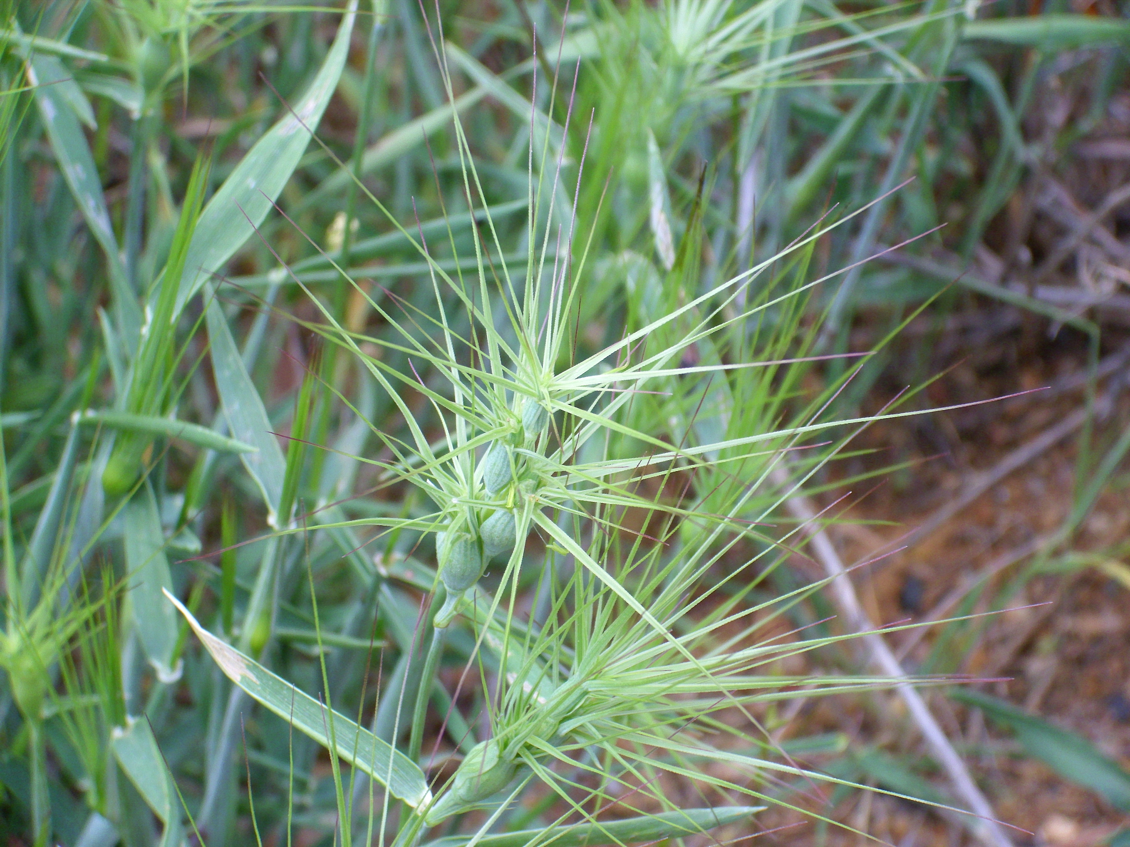 Aegilops geniculata spikes close up, Dehesa Boyal de Puertollano, Spain